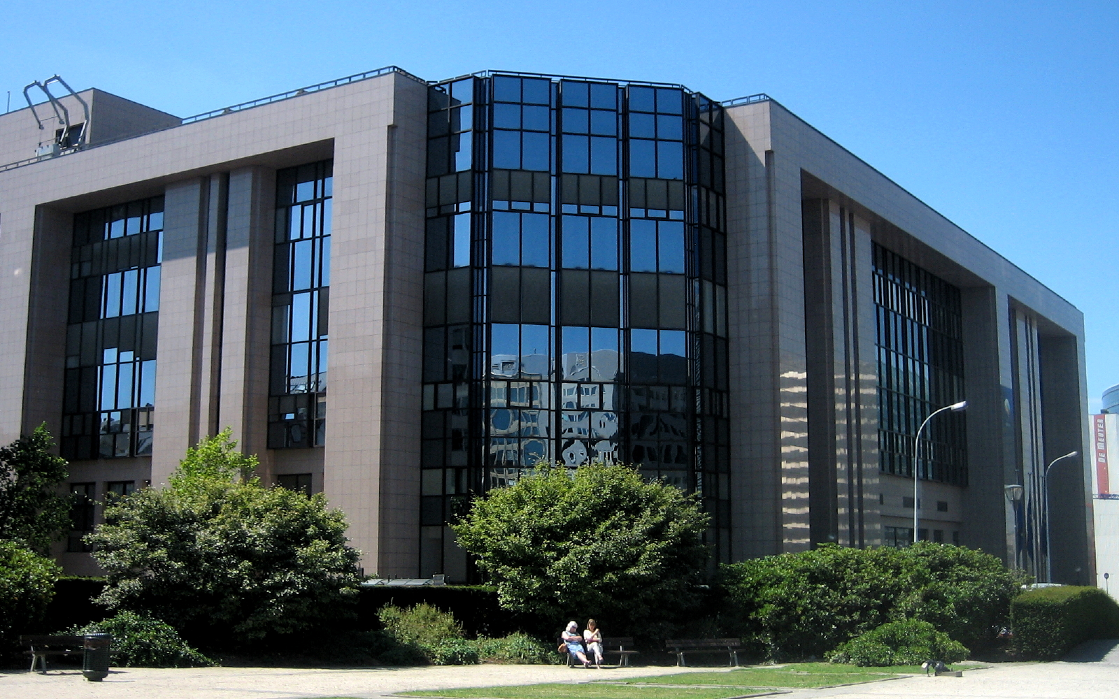 North West corner of the Justus Lipsius building (headquarters of the Council of the European Union), seen from Schuman Roundabout.